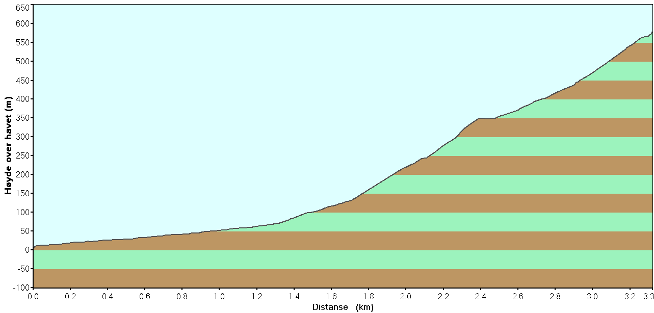 Height profile climbing the mountain Grønlihalsen in Brønnøy, Norway.